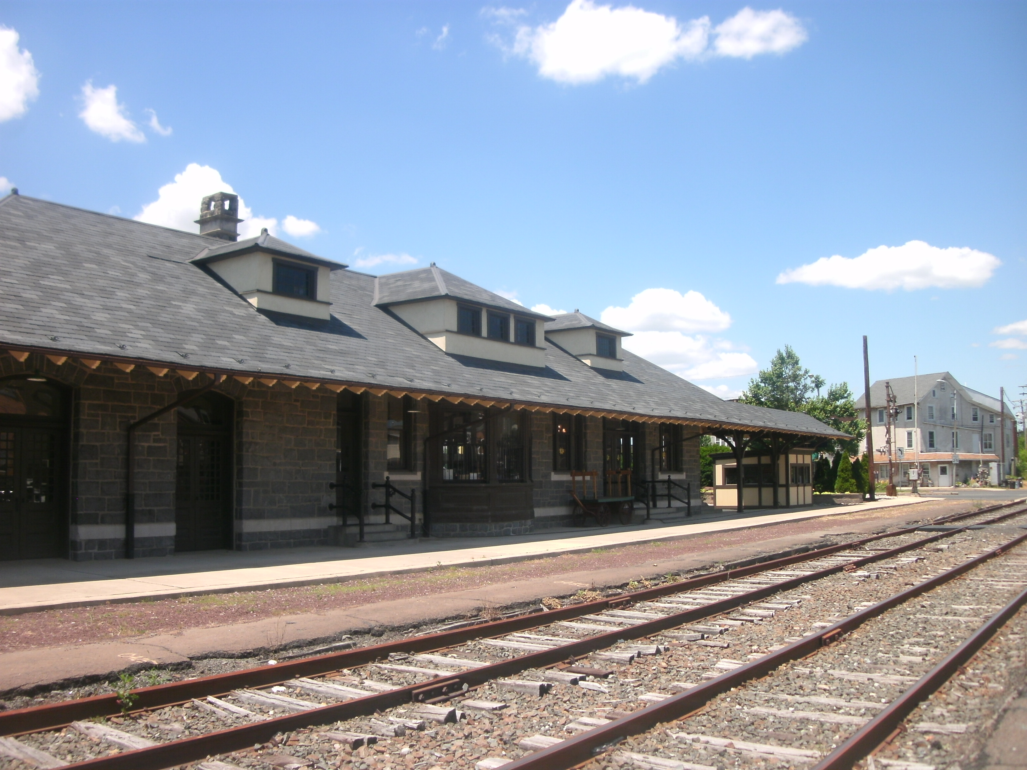 The former Southeastern Pennsylvania Transportation Authority and Reading Railroad station in Quakertown, Pennsylvania as seen in June 2012.